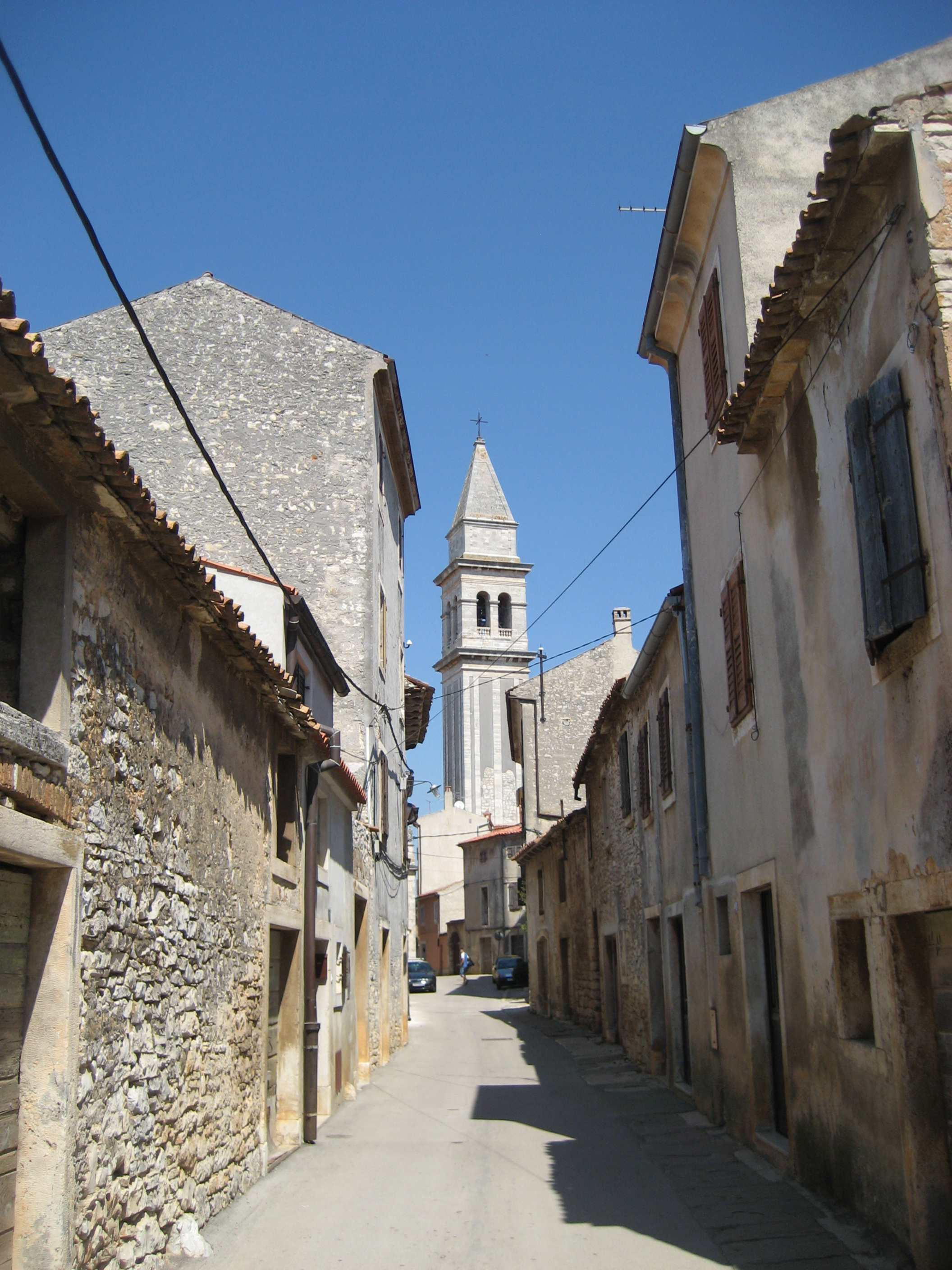 odnjan,_Northwest_Croatia